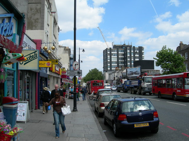 Clapham High Street SW4 (2) Near Stonhouse Street.